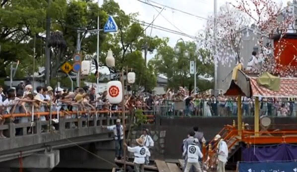 Sunari Festival in the morning.